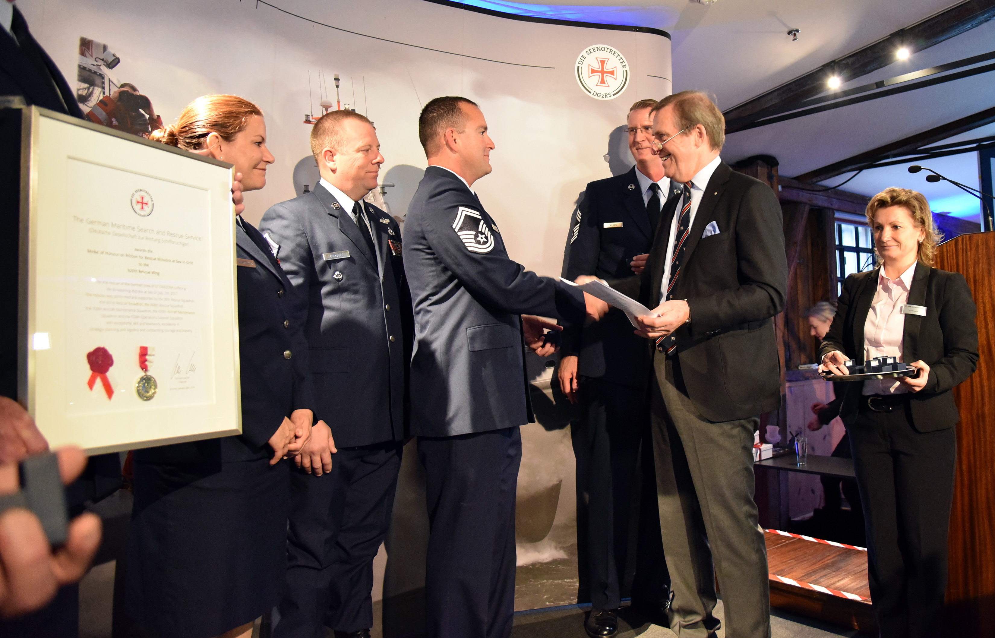 Gerhard Harder, second from left, chairman of the German Maritime Search and Rescue Service, presents the German Medal of Honor on Ribbon for Rescue Missions at Sea in Gold to Senior Master Sgt. George Taylor, third from left, 920th Aircraft Maintenance Squadron lead production superintendent, during a presentation ceremony Jan. 26, 2018 at the German Maritime Museum, Hamburg, Germany. Taylor and six other Reserve Citizen Airmen traveled to Germany to accept the award on behalf of the 920th Rescue Wing. The wing was honored for its rescue of two German citizens after their vessel caught fire approximately 500 nautical miles off the east coast of Cape Canaveral, Florida, July 7, 2017. (U.S. Air Force photo by Tech. Sgt. Lindsey Maurice)